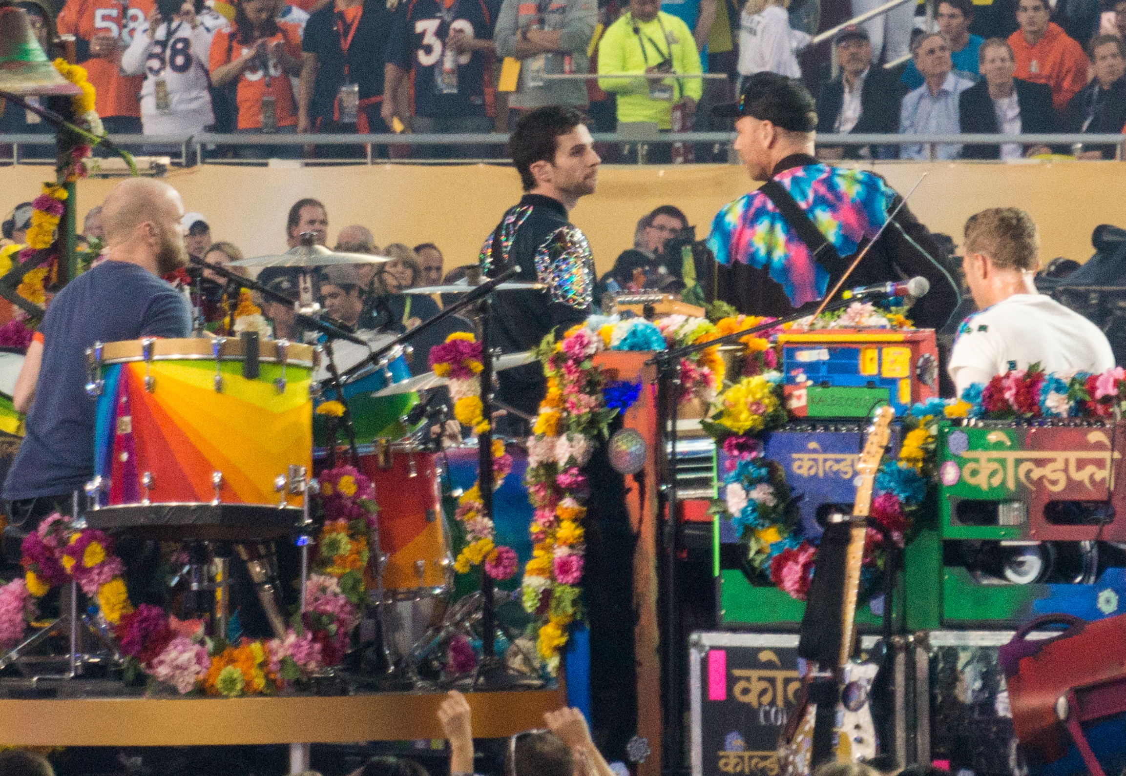 Chris Martin, Coldplay, Denver Broncos, Carolina Panthers, Super Bowl, Super Bowl 50, Santa Clara